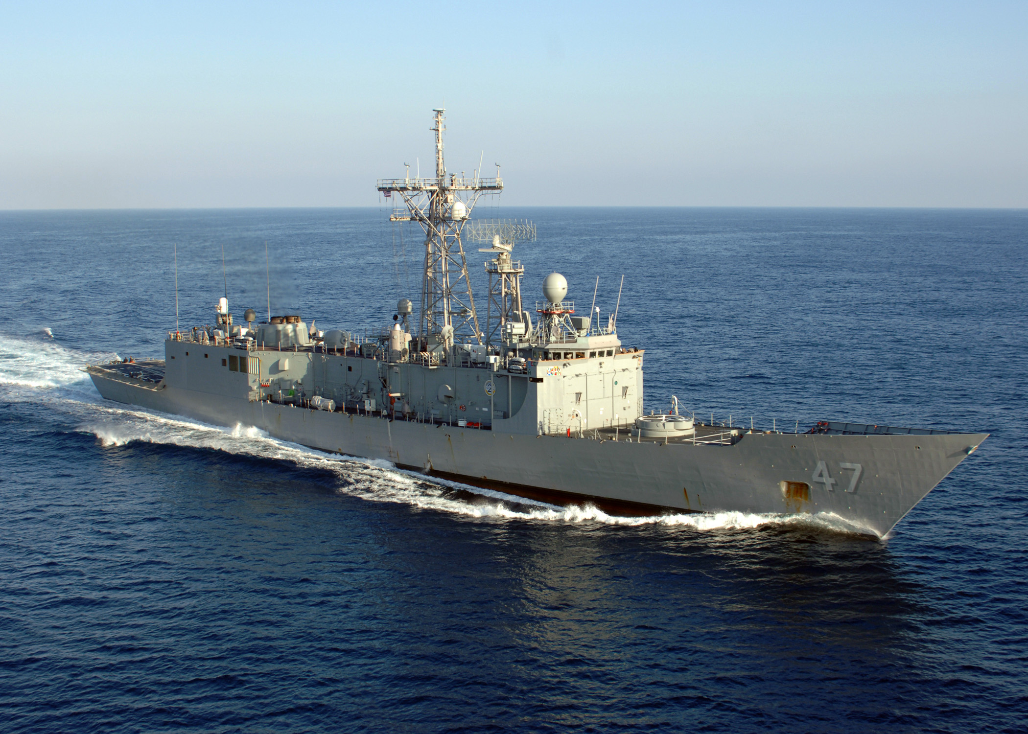 Atlantic Ocean (May 7, 2006) - The guided-missile frigate USS Nicholas (FFG 47) sails through the Atlantic Ocean in formation with he Enterprise Carrier Strike group (CSG). The Enterprise CSG and embarked Carrier Air Wing One (CVW-1) are currently underway on a scheduled six-month deployment in support of the global war on terrorism. U.S. Navy photo by Photographer's Mate 3rd Class Joshua Kinter (RELEASED)